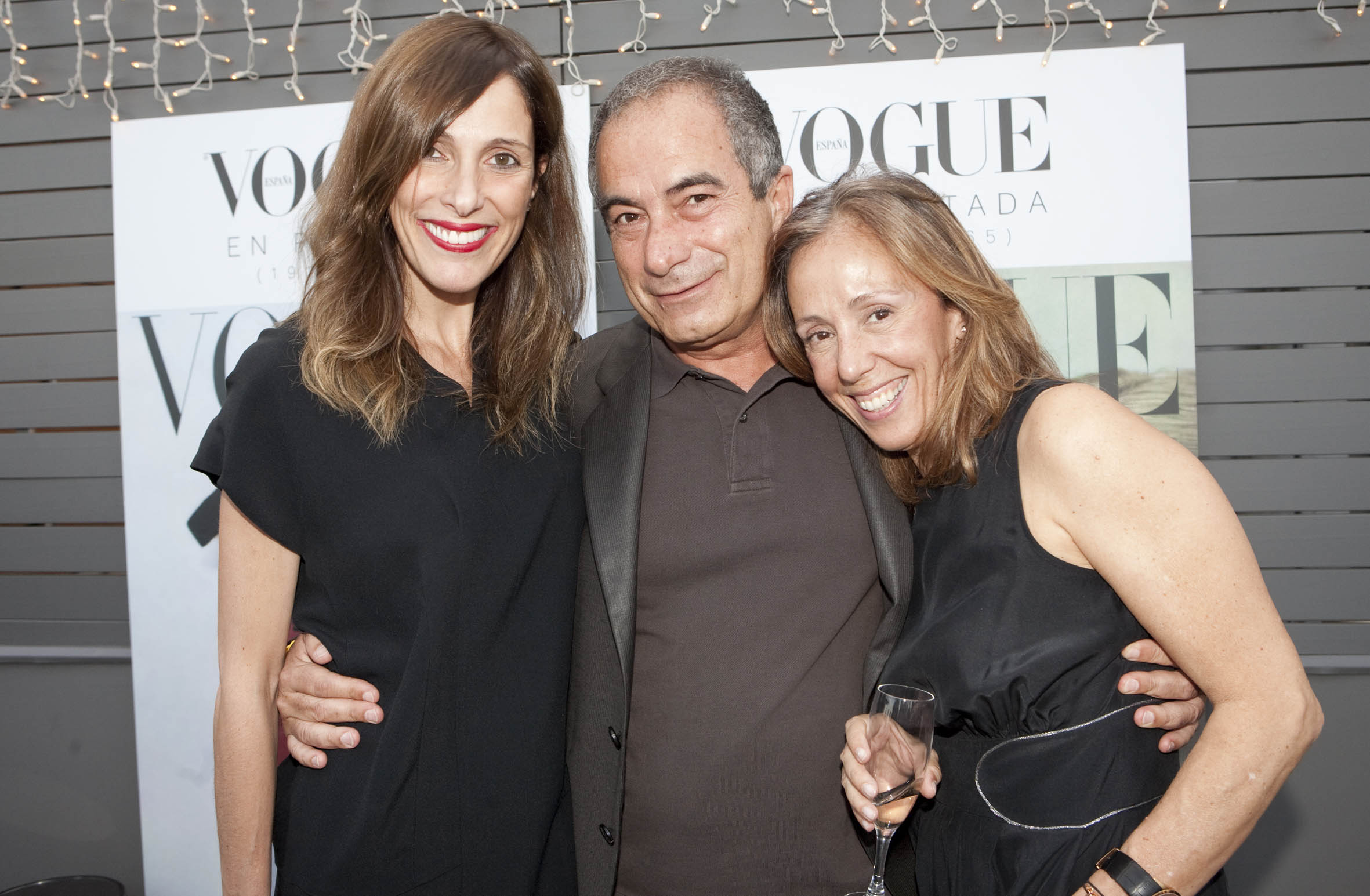 Vogue . The Brandery Summer Edition 2010. Yolanda Sacristán, managing director of Vogue Spain, at the left of the image.